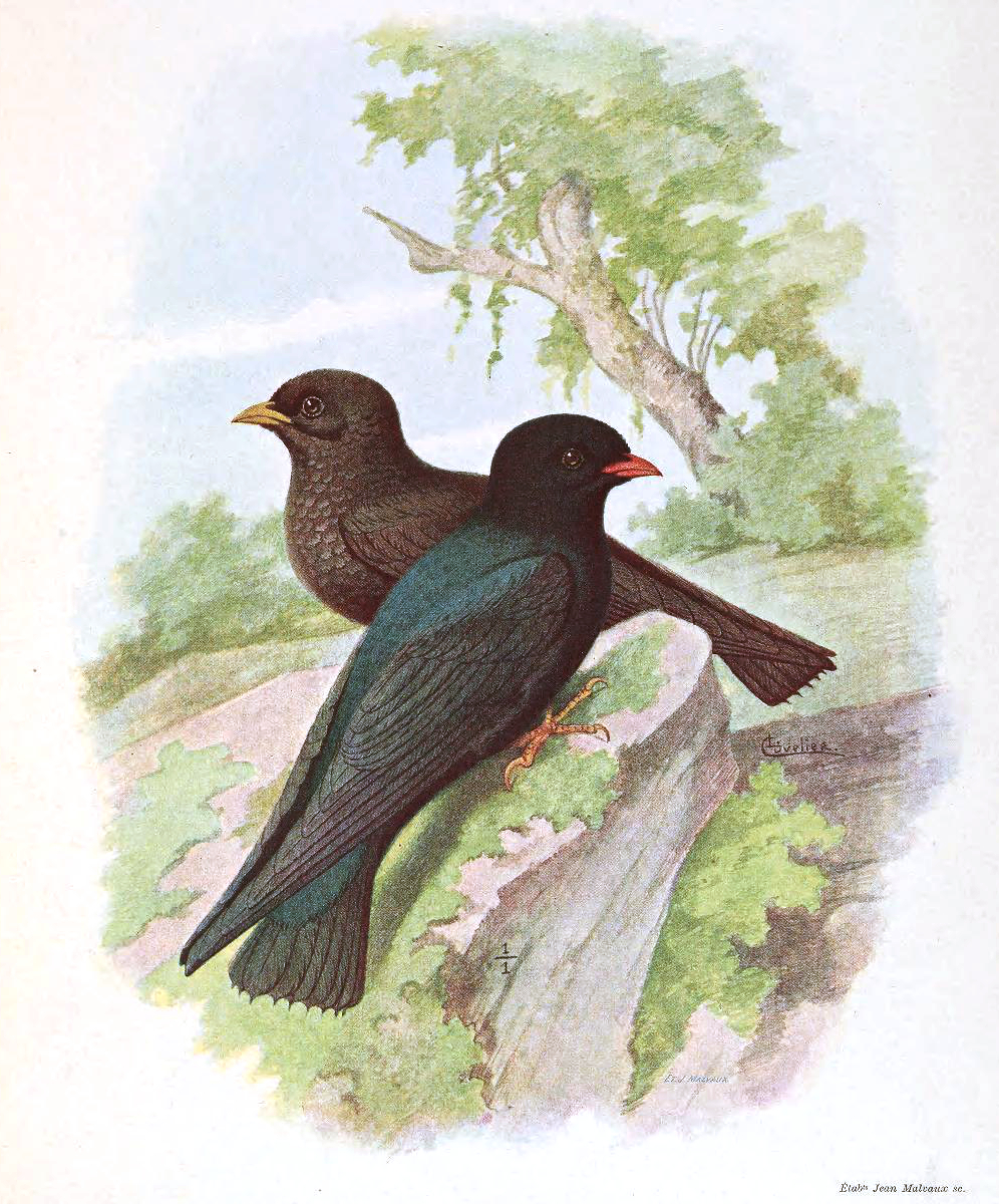 Pseudochelidon eurystomina